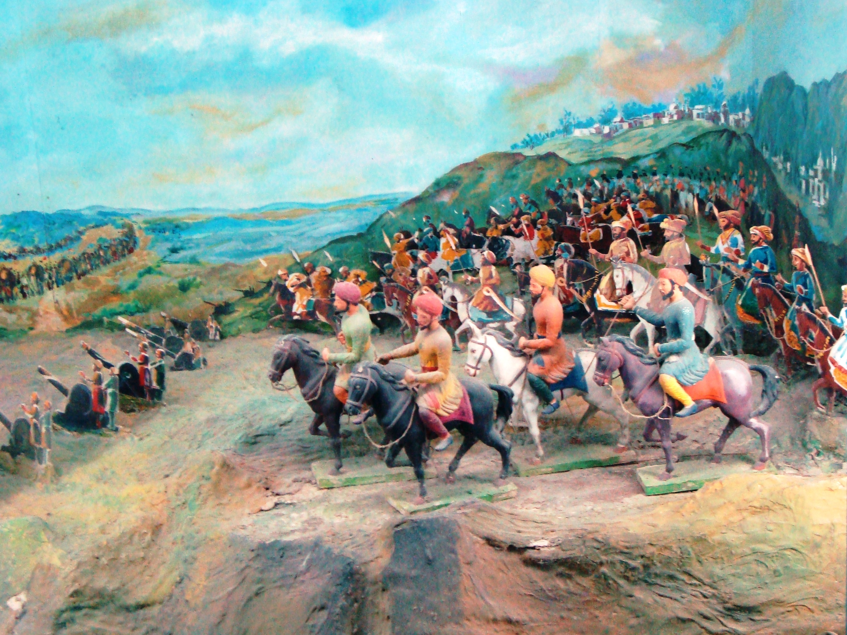 Diorama of Battle of Panipat (1526) displayed at Indian War Memorial museum, Naubatkhana, Red Fort, Delhi